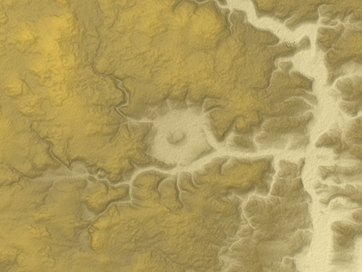 Steinheim Crater in Baden-Württemberg, Germany.